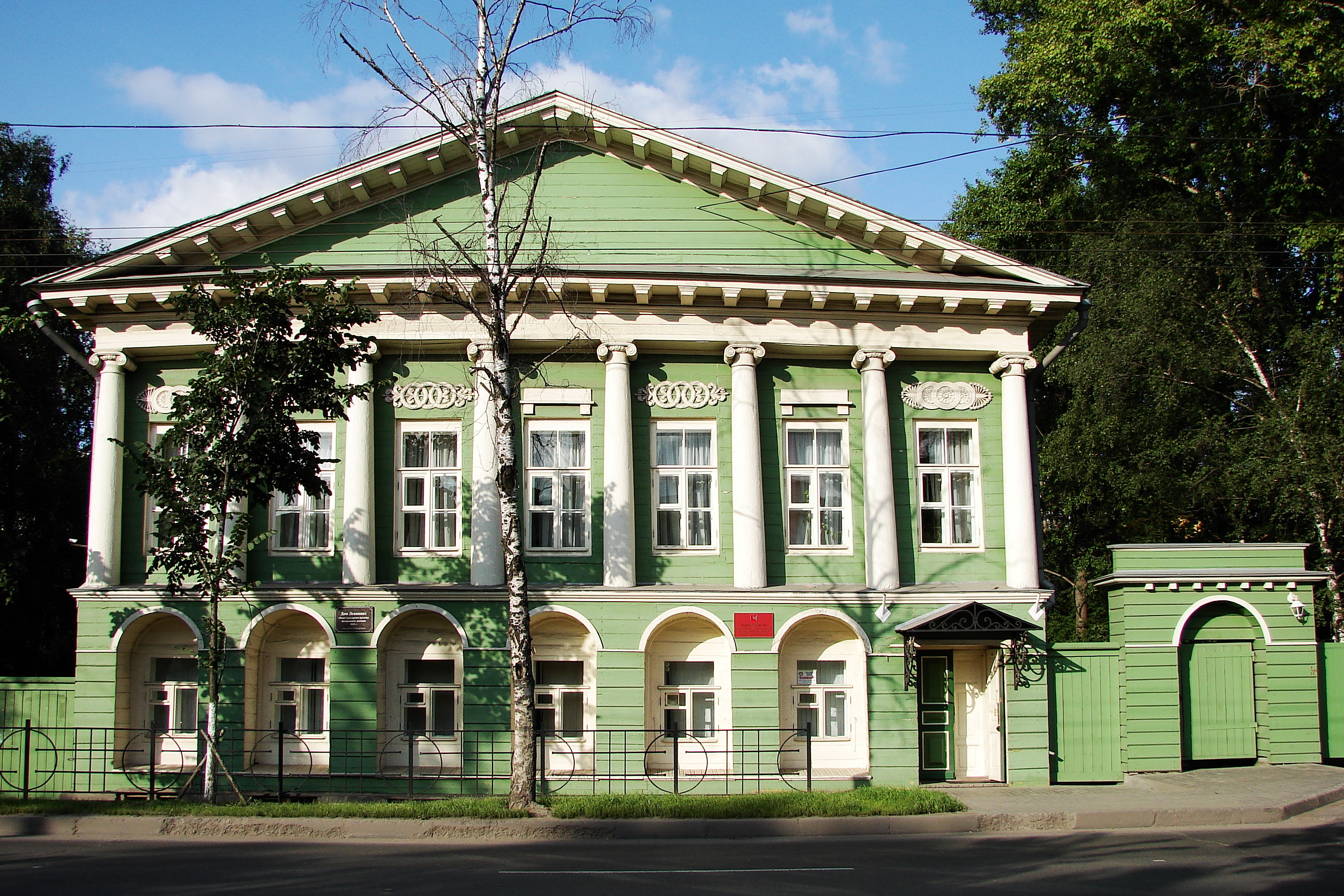 Russia, Vologda, Levashov`s House (1829 year)